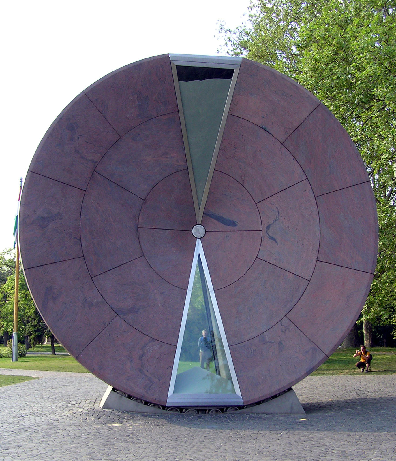 Timewheel in Budapest